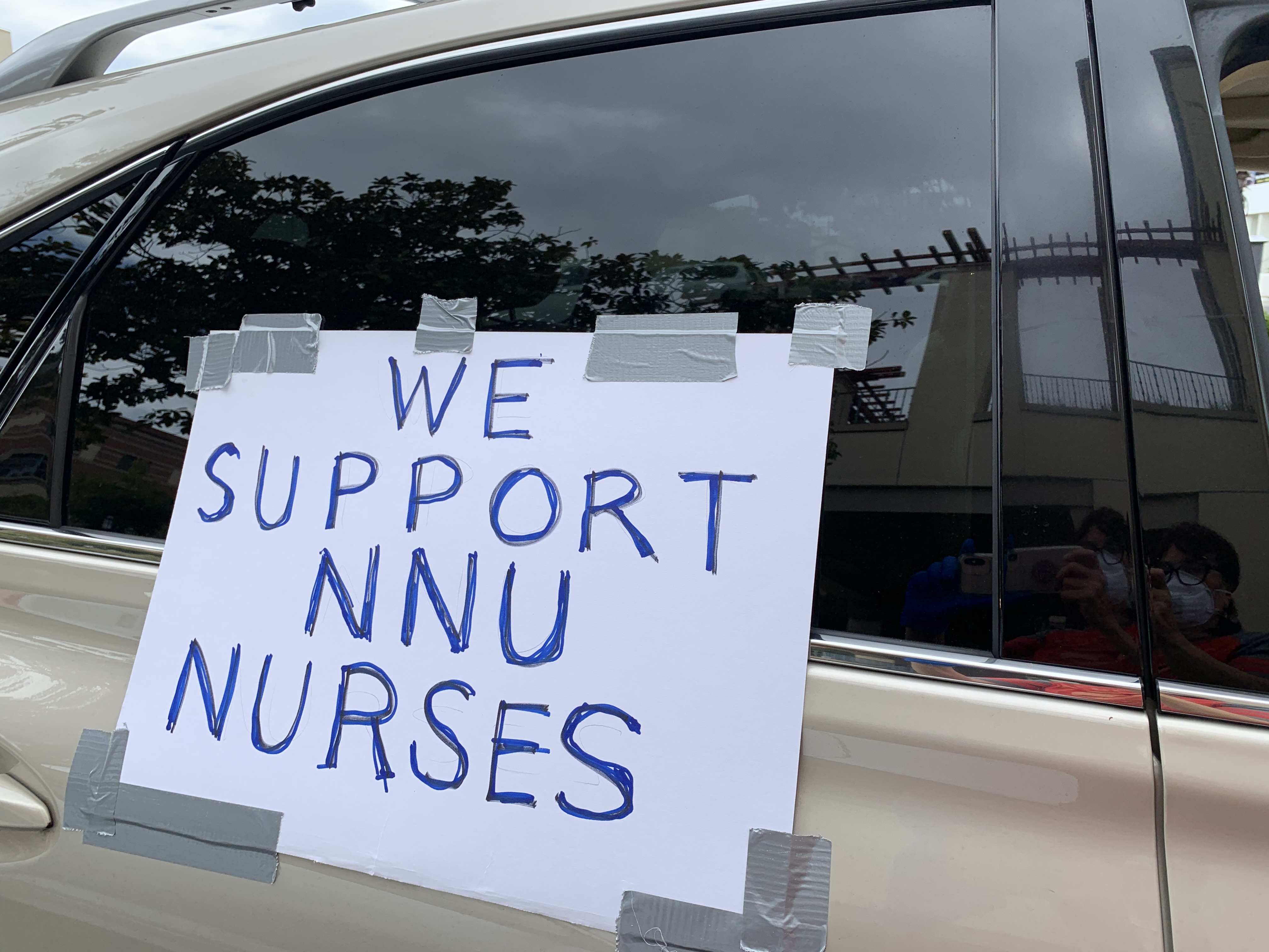 April 13, 2020. Sign displayed at honking car caravan circling UCLA Medical Center (SM) to support NNU nurses.